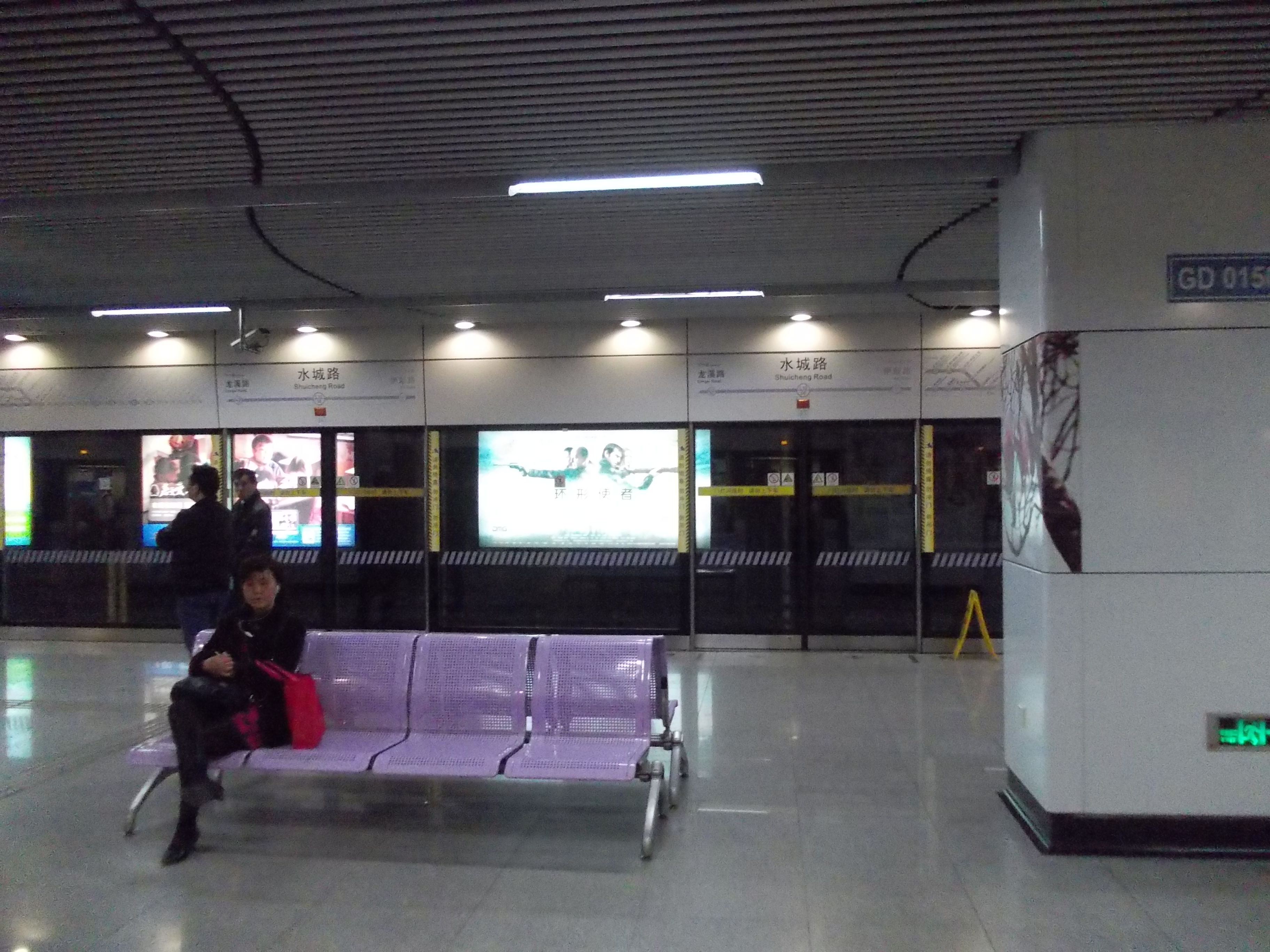 Shanghai Metro - Line 10 - Shuicheng Road